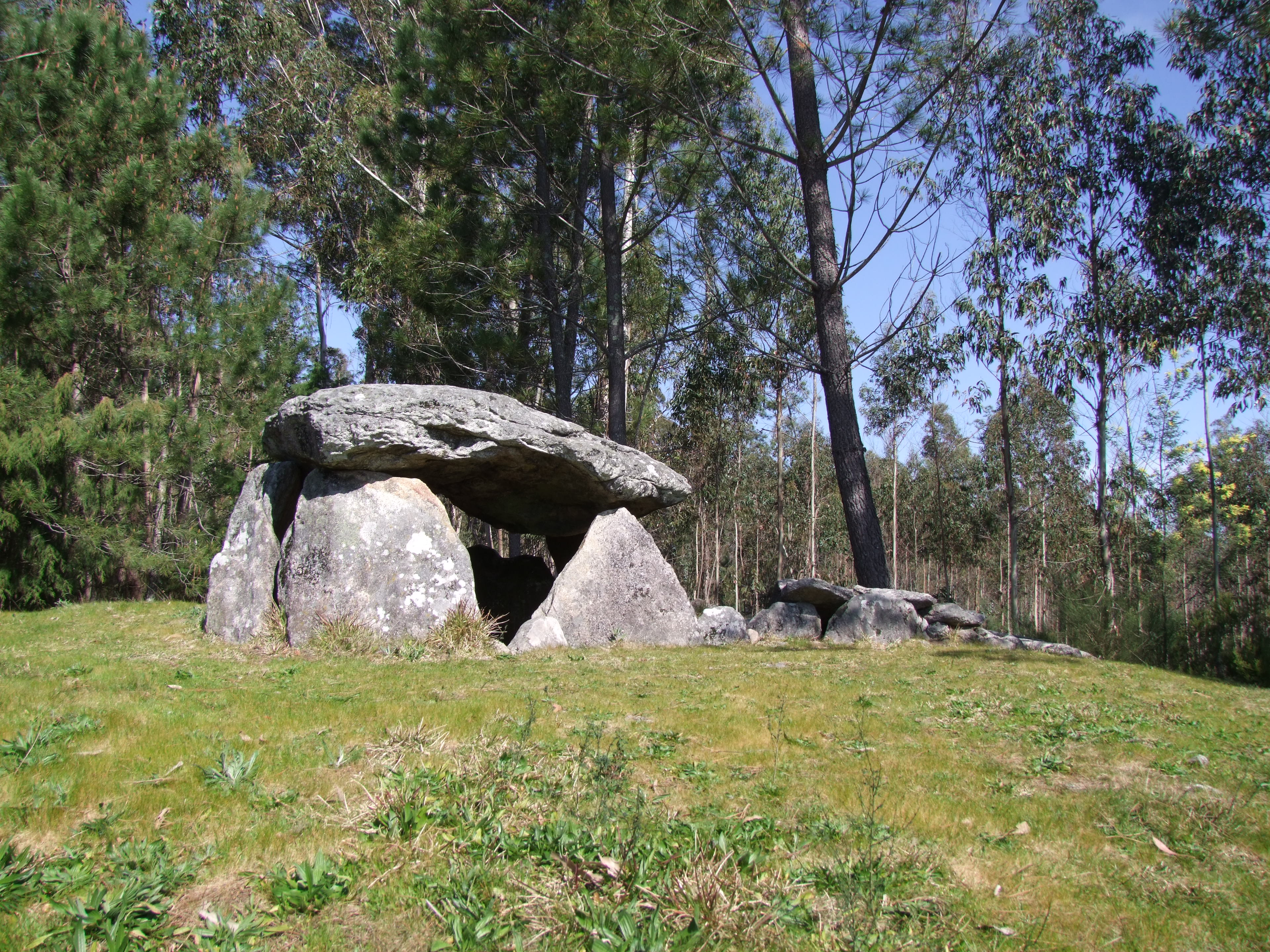 Anta de Cerqueira, a perfectly restaured dolmen.